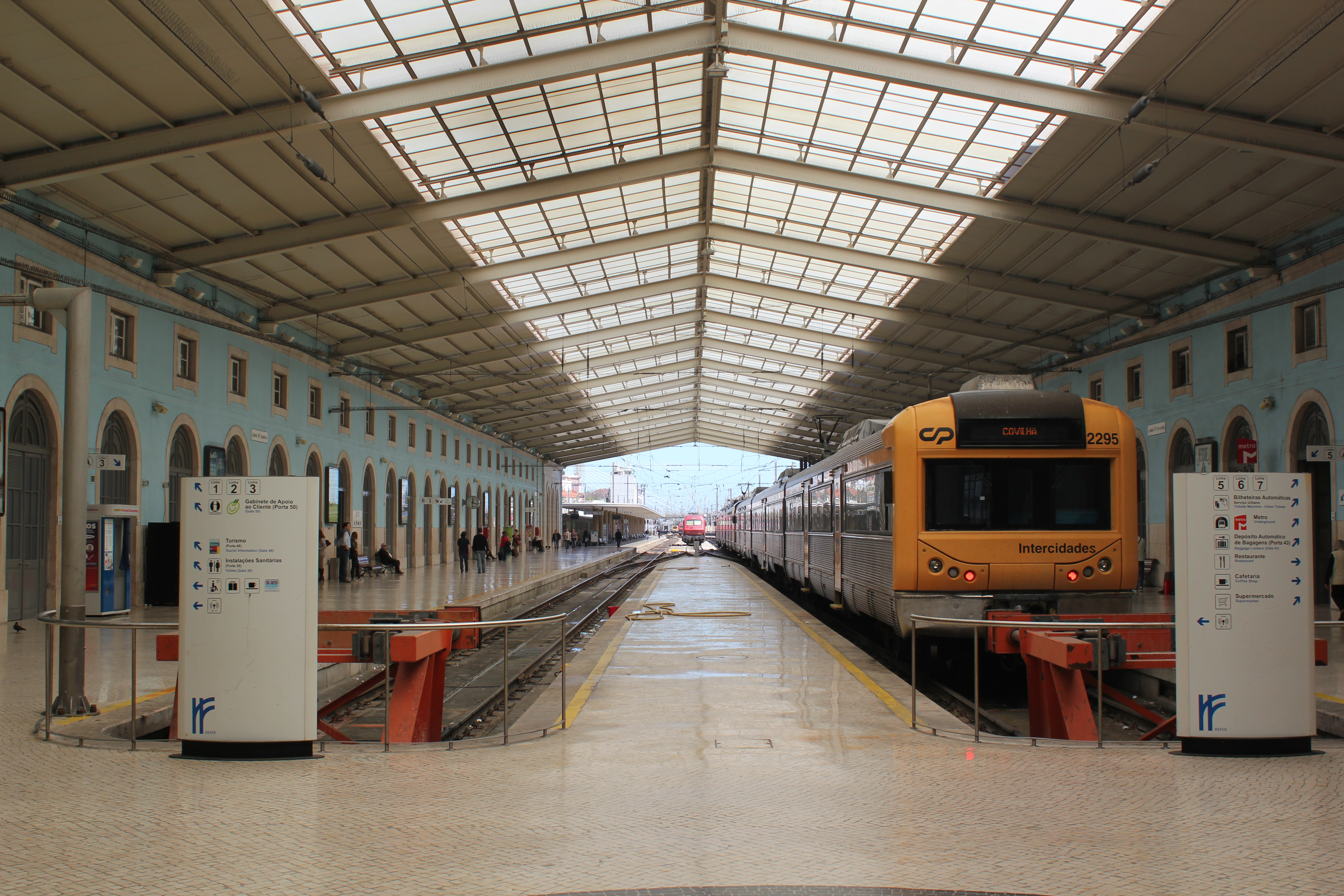 Santa Apolónia terminal train station